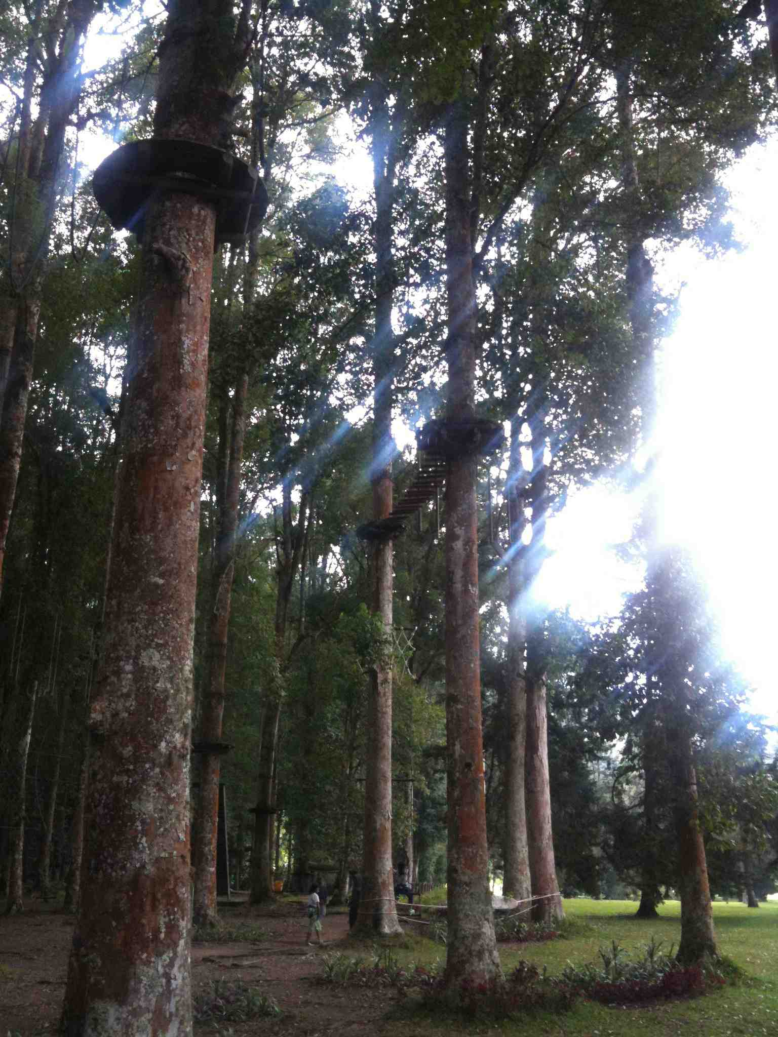 Bali Treetop Adventure Park_2